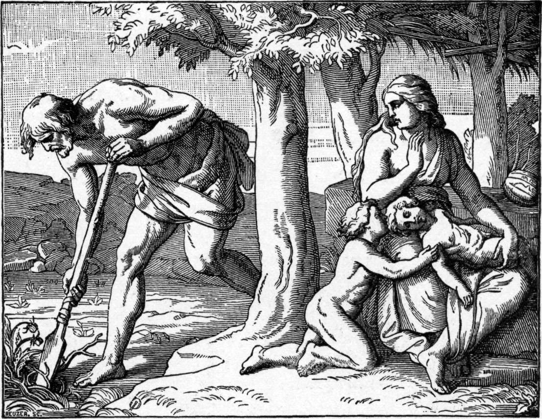 Eve with her two little boys is sitting under the tree. Adam is digging in the ground